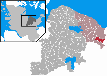 This map shows the area of the Gemeinde (municipality) Kletkamp in the Kreis (district) Plön, Schleswig-Holstein, Germany.